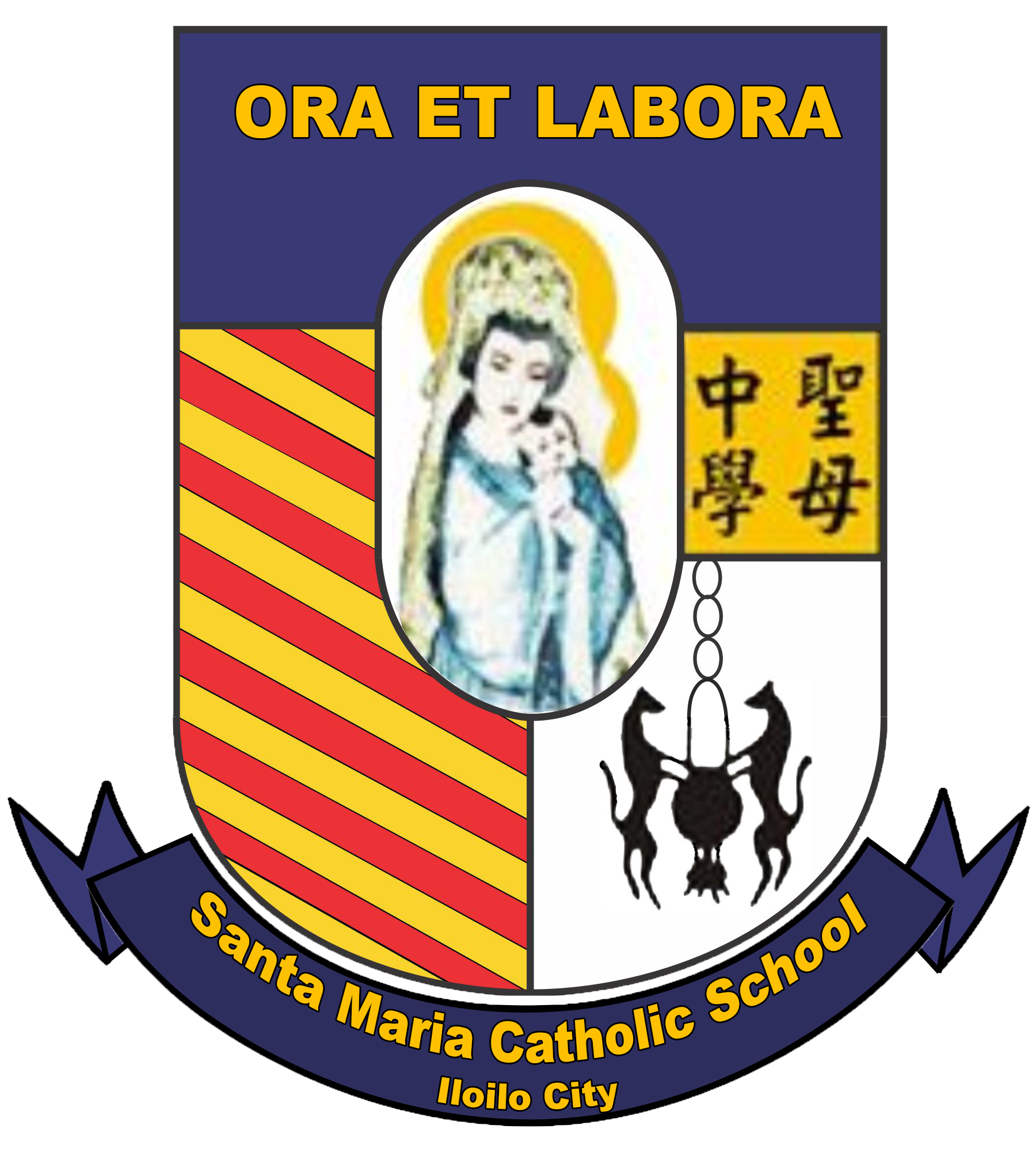 Santa Maria Catholic School